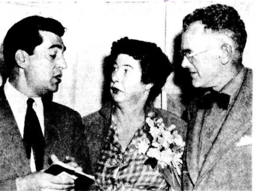 Miss Moya Dyring with M. Claude Bonin-Pissarro (left), who opened her exihibition of gouache and oil paintings of France at the Macquarie Galleries yesterday, and the director of the National Art Gallery, Mr. Hal Missingham.